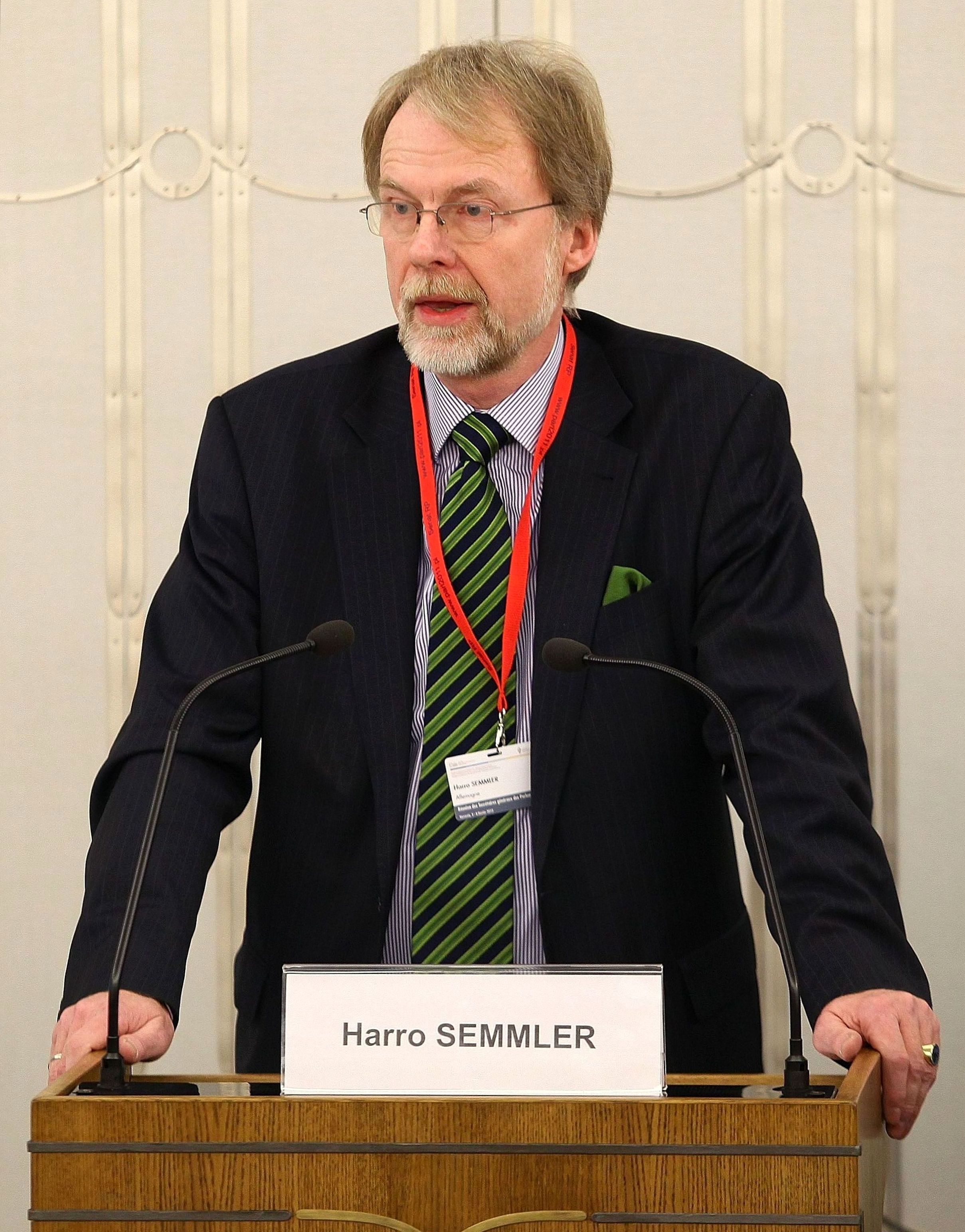 Secretary General of Bundestag Harro Semmler. Meeting of the Secretaries General of EU Parliaments in the Polish Senate in Warsaw